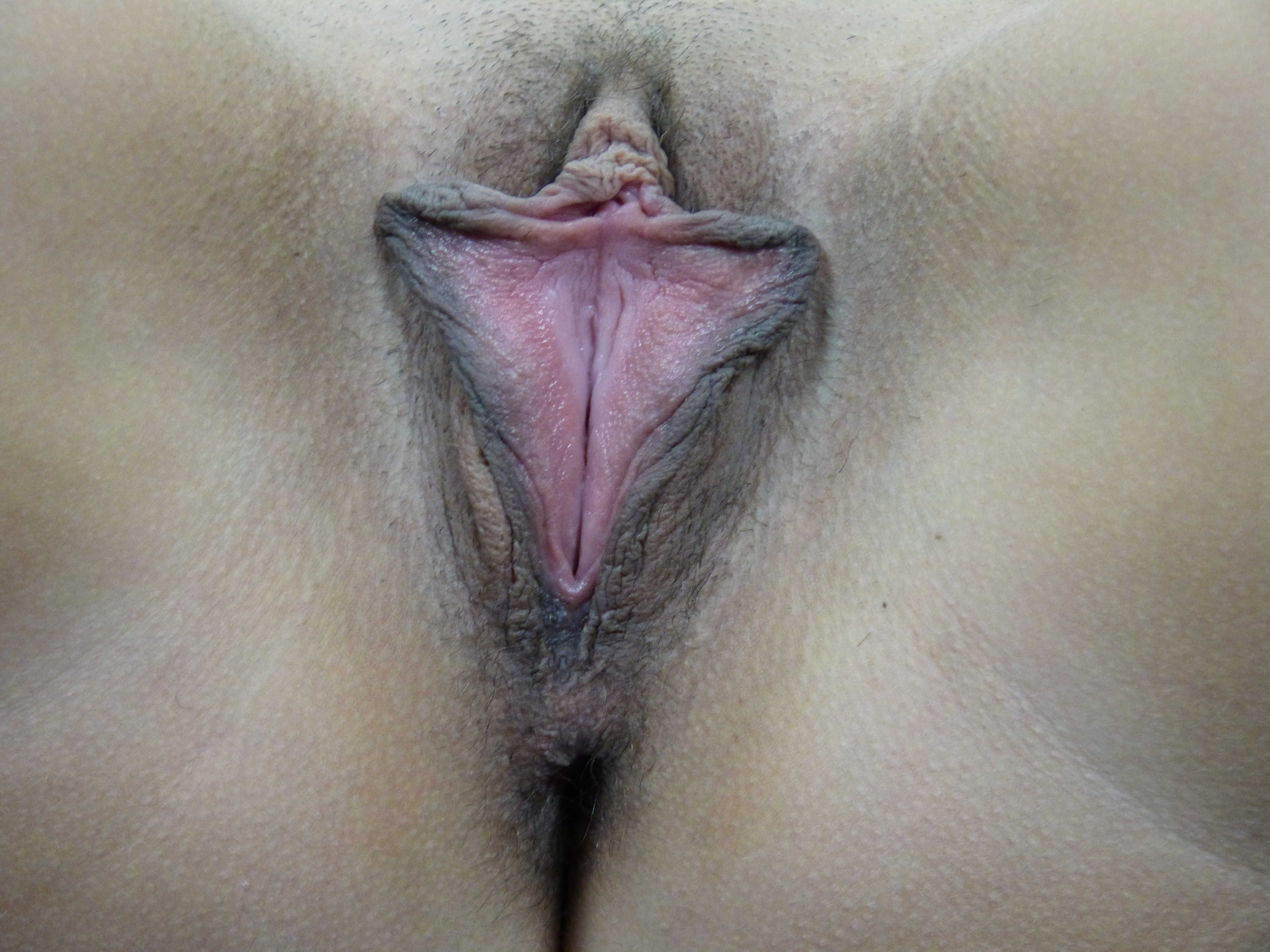 This photo depicts a typical healthy vulva, with "enlarged" labia minora and "excess tissue" in the clitoral hood region. The 20 year-old nulliparous patient complained of an inability to wear tight clothing, as well as discomfort with intercourse, due to pulling and stretching of the labia minora.